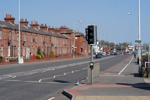 The Shore Road, Whiteabbey The Shore Road at Whiteabbey looking towards Carrickfergus